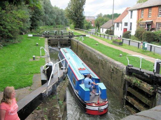 Grand Union Canal: Dudswell Bottom Lock No 48 Travel along the Grand Union Canal. North: 1514933. 1514958. You are Here. South: 1514970.